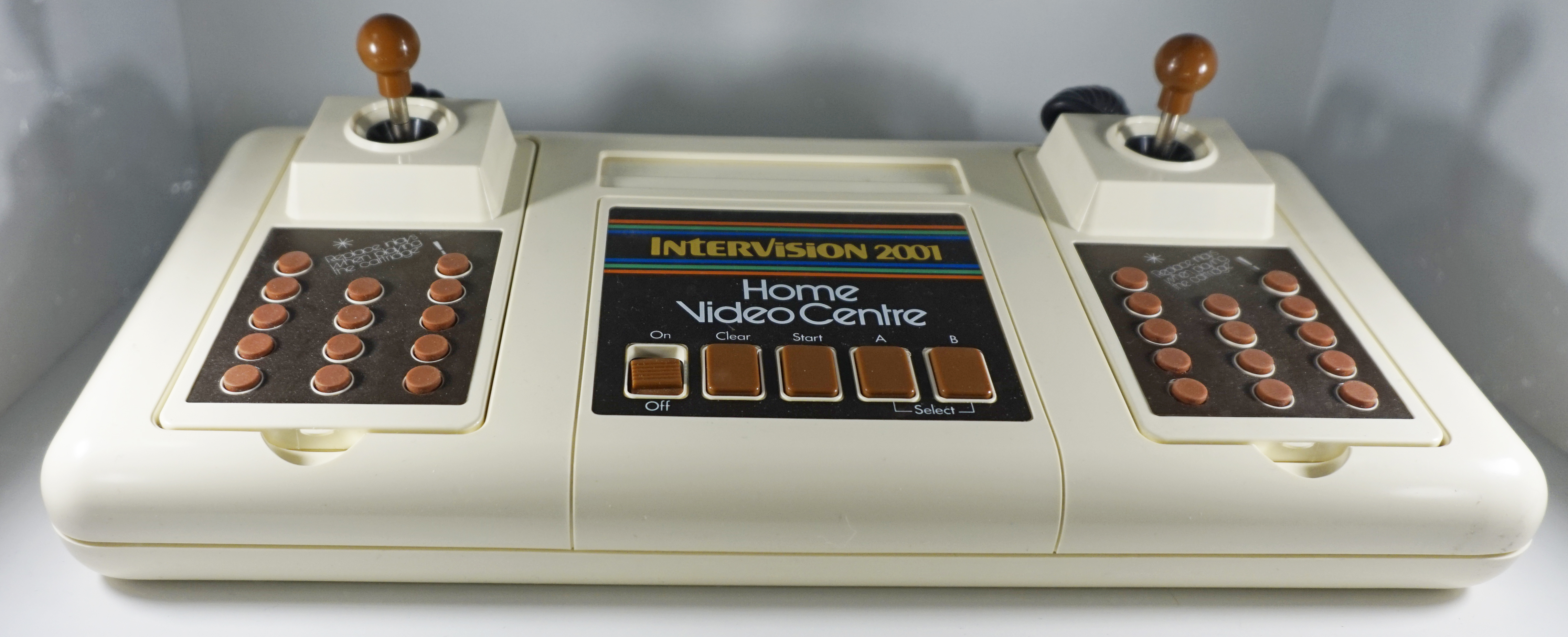 Intervision 2001. The Finnish Museum of Games, Tampere.